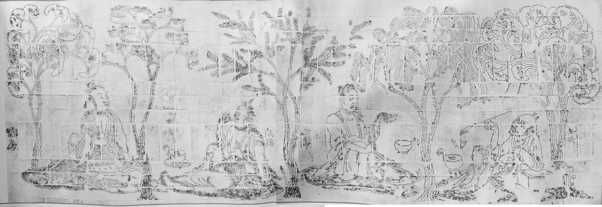 1st part.Rubbing of molded-brick relief "Seven Sages of the Bamboo Grove and Rong Qiqi", found from a Eastern Jin or Southern dynasties tomb near Nanjing